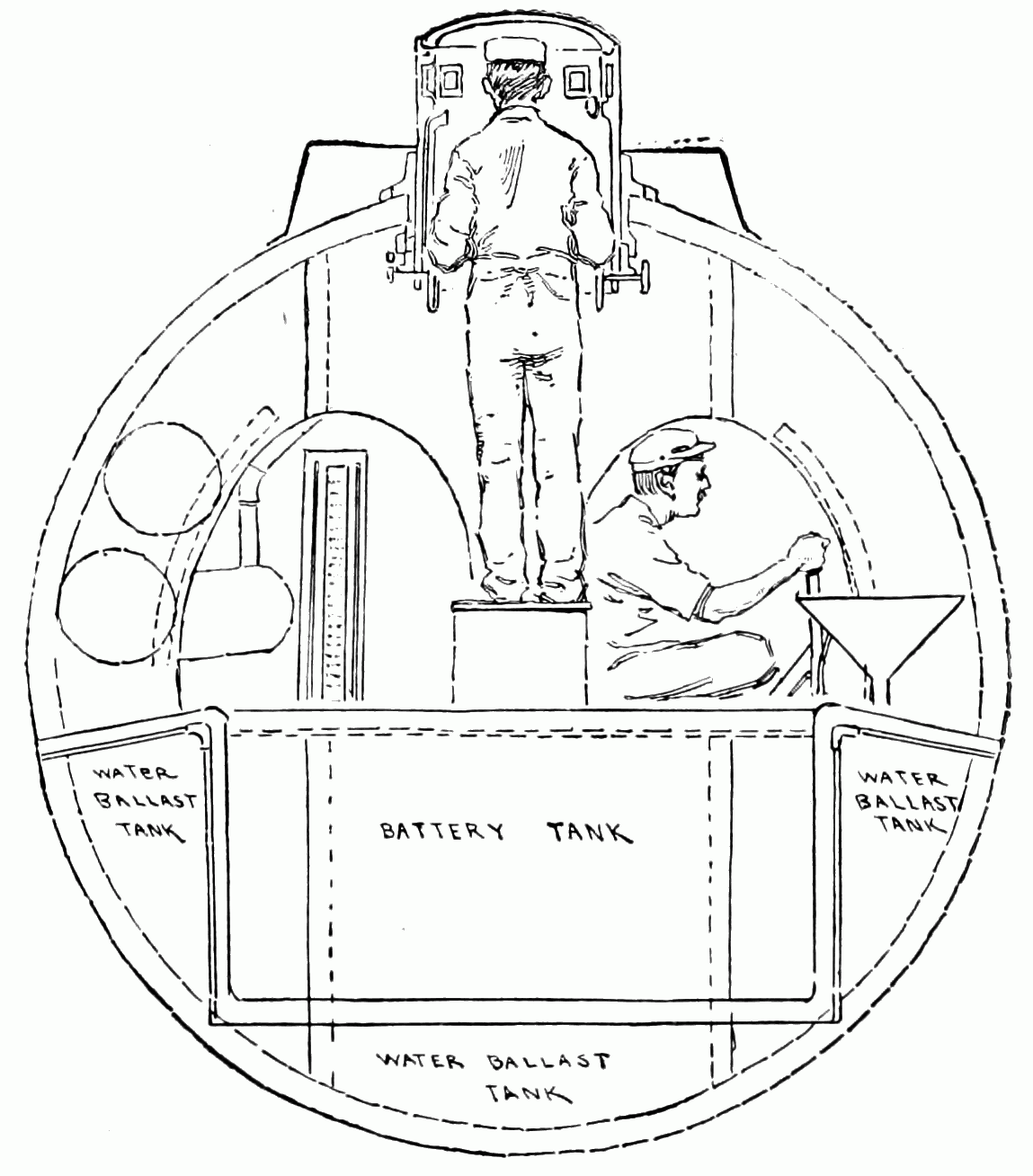 Cross section of the Holland amidships